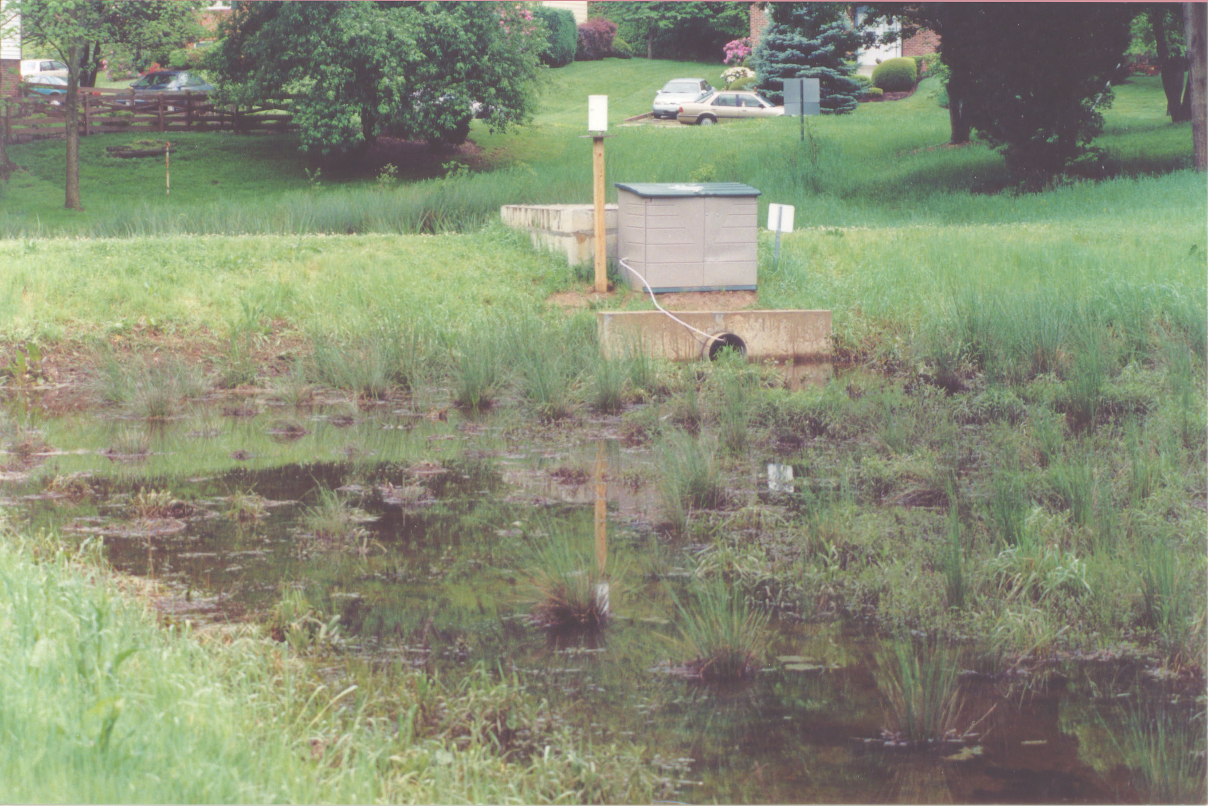 View of peat-sand filter, a variety of media filter, in United States. Filter treats polluted stormwater runoff from a residential area.